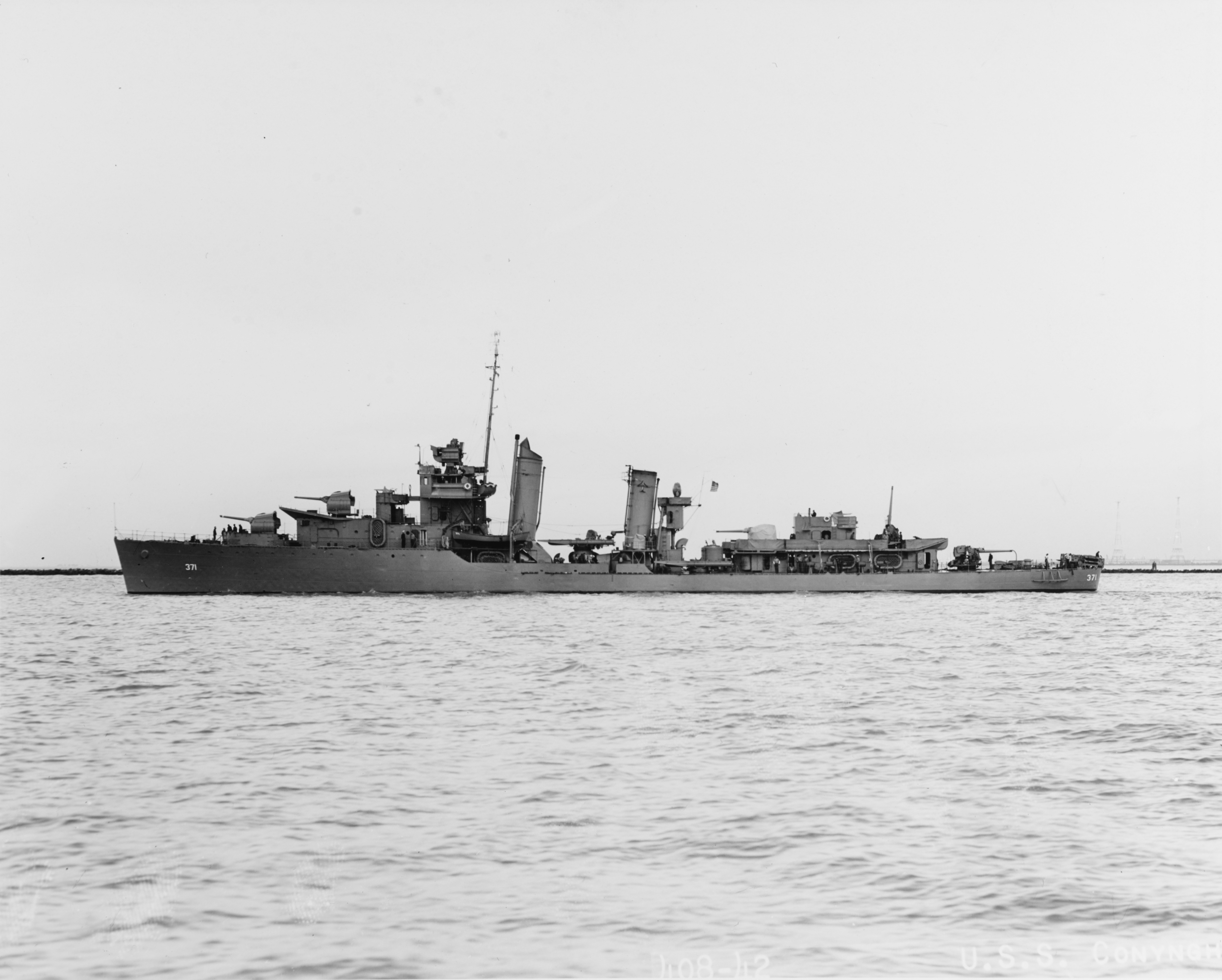 The U.S. Navy destroyer USS Conyngham (DD-371) off the Mare Island Navy Yard, California (USA), 22 January 1942. Note that she still has her number three 5/38 gun. Photograph from the Bureau of Ships Collection in the U.S. National Archives.